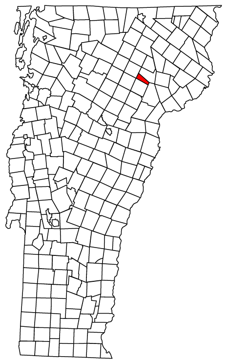 Map of Vermont towns with Stannard highlighted